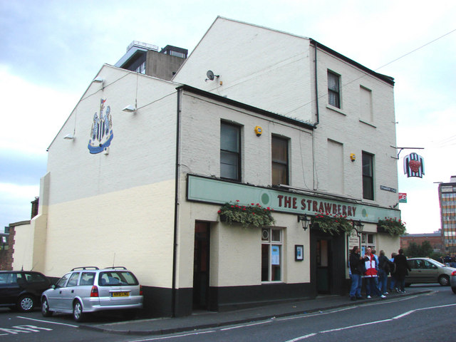 The Strawberry Pub, Strawberry Place, Newcastle upon Tyne The Strawberry pub is immediately outside St James's Park football stadium, hence the Newcastle United badge painted on the gable wall and the black and white striped shirt with a strawberry on the front as a pub sign.